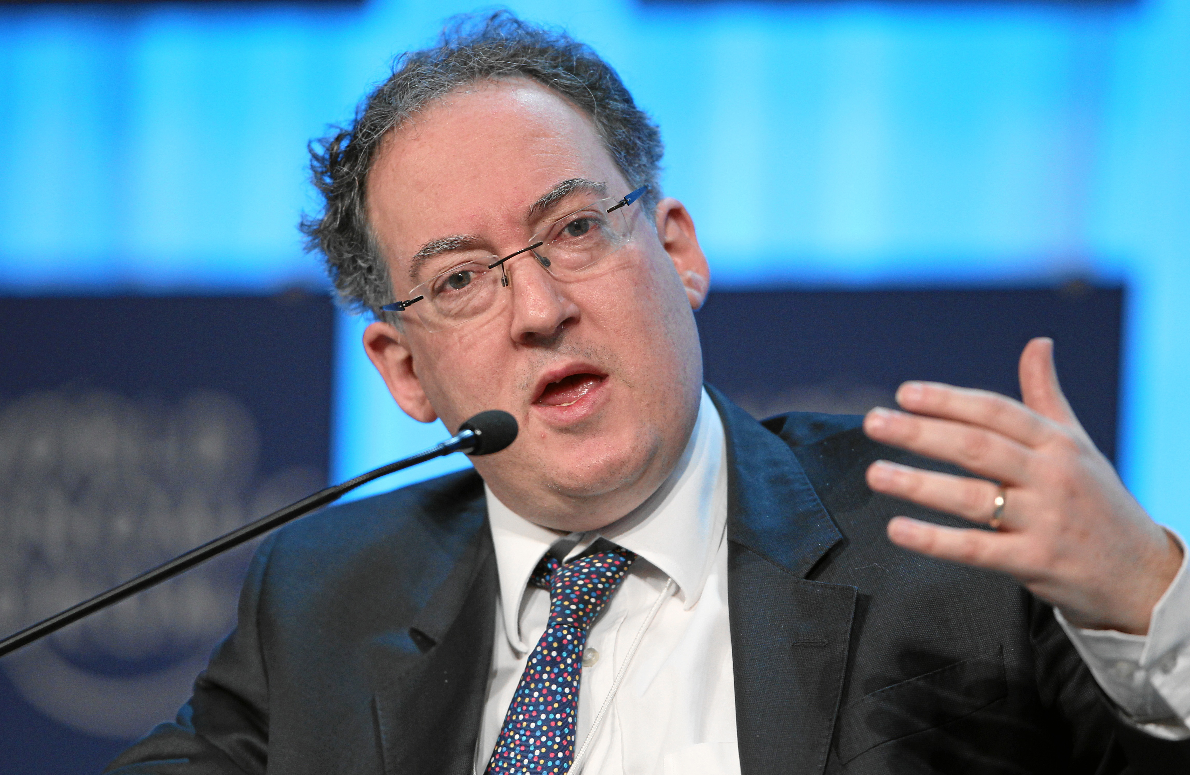 DAVOS/SWITZERLAND, 28JAN12 - Gideon Rachman, Associate Editor, Chief Foreign Affairs Commentator, Financial Times, United Kingdom; Global Agenda Council on Geopolitical Risk is captured during the session 'Pundits, Professors and their Predictions' at the Annual Meeting 2012 of the World Economic Forum at the congress centre in Davos, Switzerland, January 28, 2012.. . Copyright by World Economic Forum. by Moritz Hager